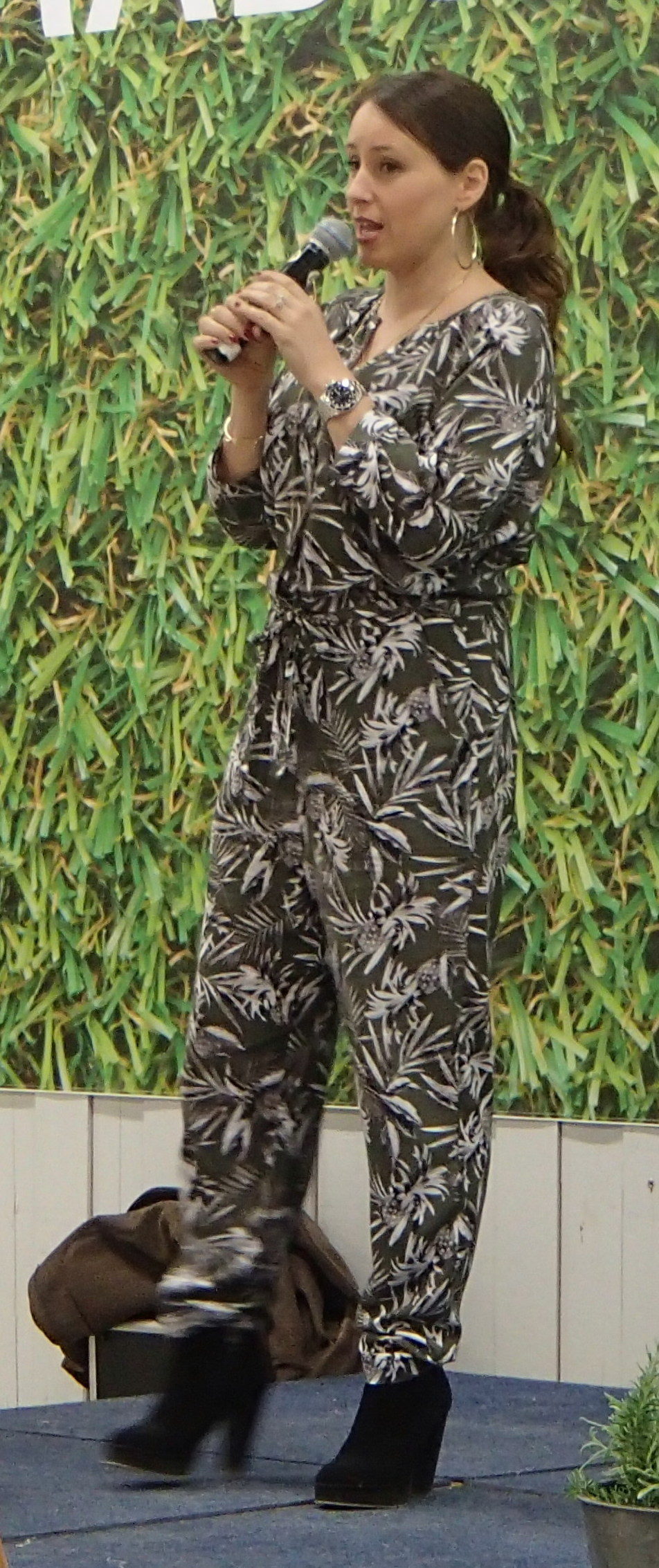 Television presenter Doreen Månsson during gardening presentations at Sundsvalls Vårmässa, a trade fair in Gärdehov, Sundsvall, Sweden